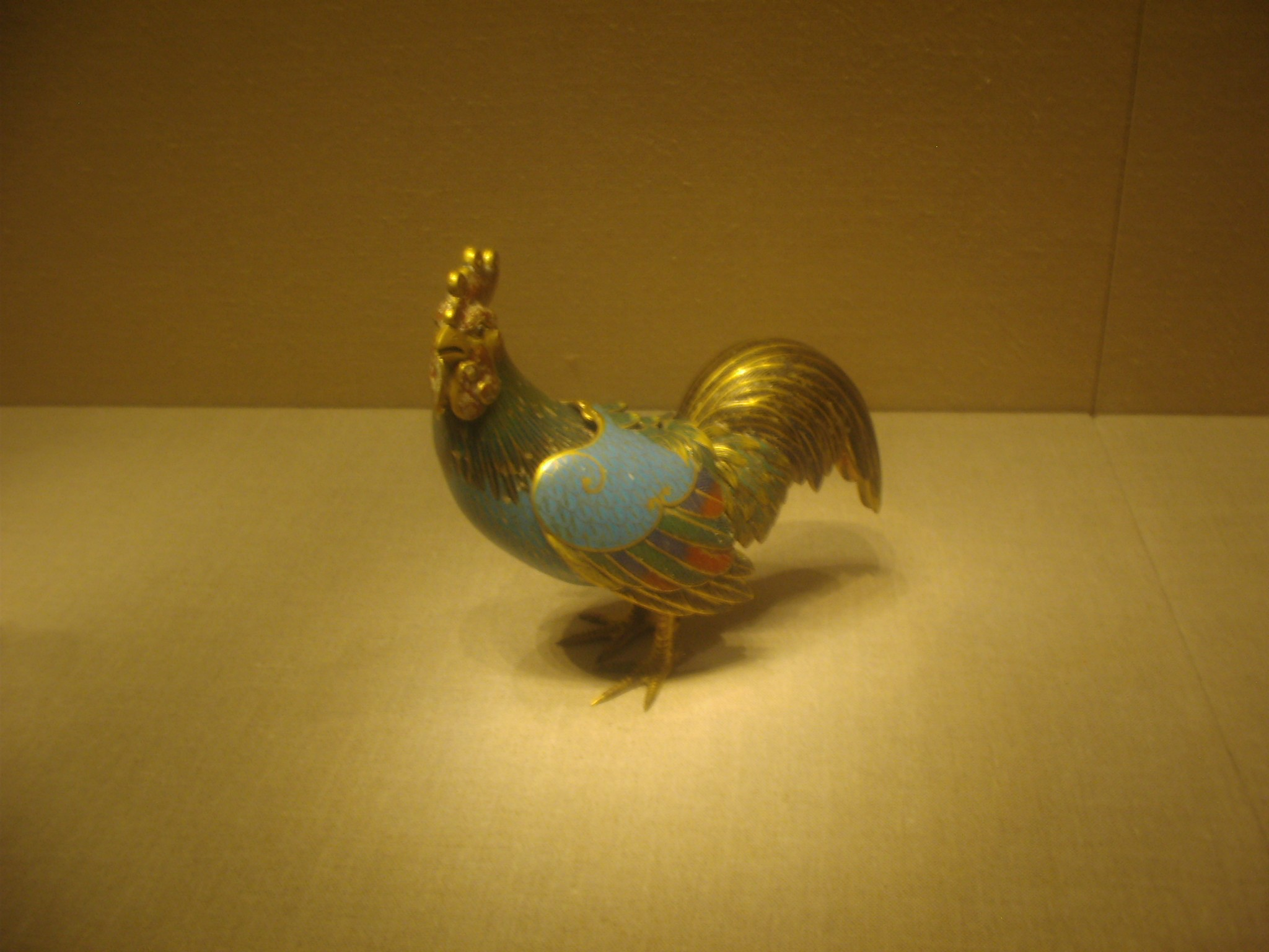 A Chinese cloisonne incense burner in the shape of a cock, from the Qing Dynasty (1644–1912), made during the 18th century.